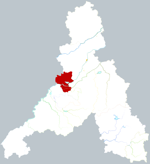 Location of Tianqiao district in Jinan City, China